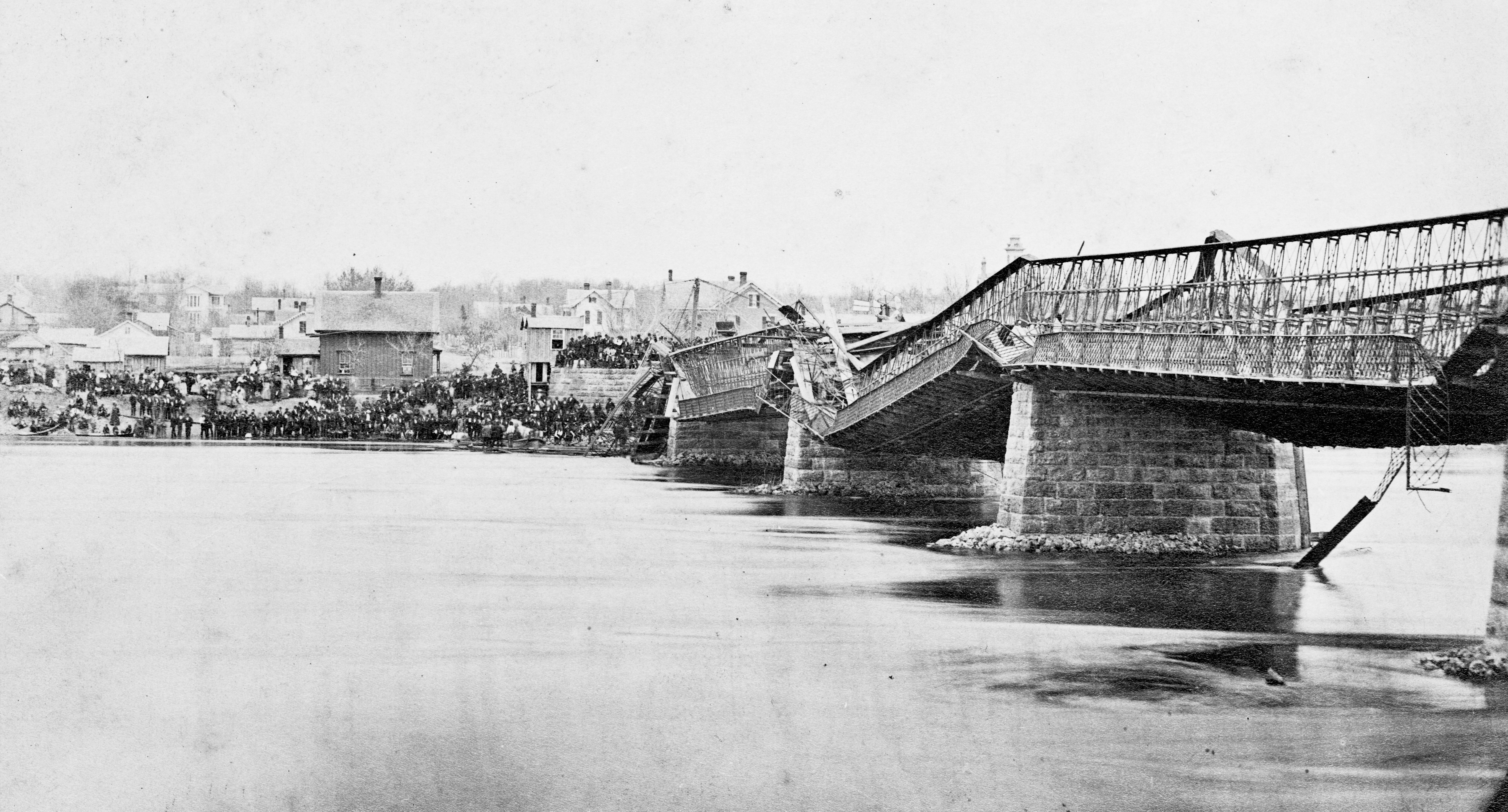 The baptisms and the great number of fatalities and injuries took place on the north side, close to where all the people are gathered.